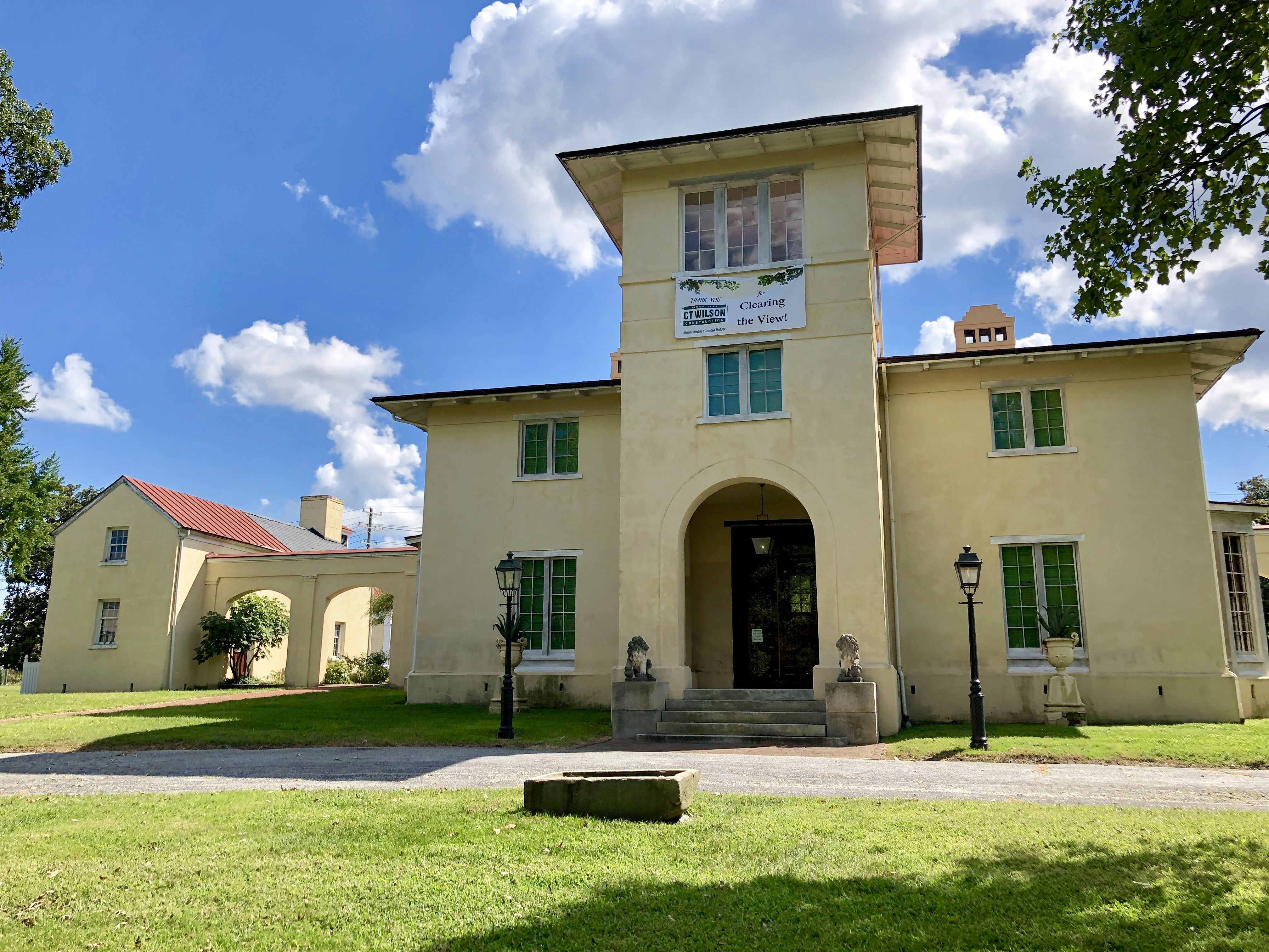 This is Blandwood, the mansion of former North Carolina Governor John Motley Morehead, constructed in 1795 with alterations in 1822 and 1845. The mansion is located on Washington Street in Greensboro, North Carolina, and was listed on the National Register of Historic Places in 1970, and as a National Historic Landmark in 1988.